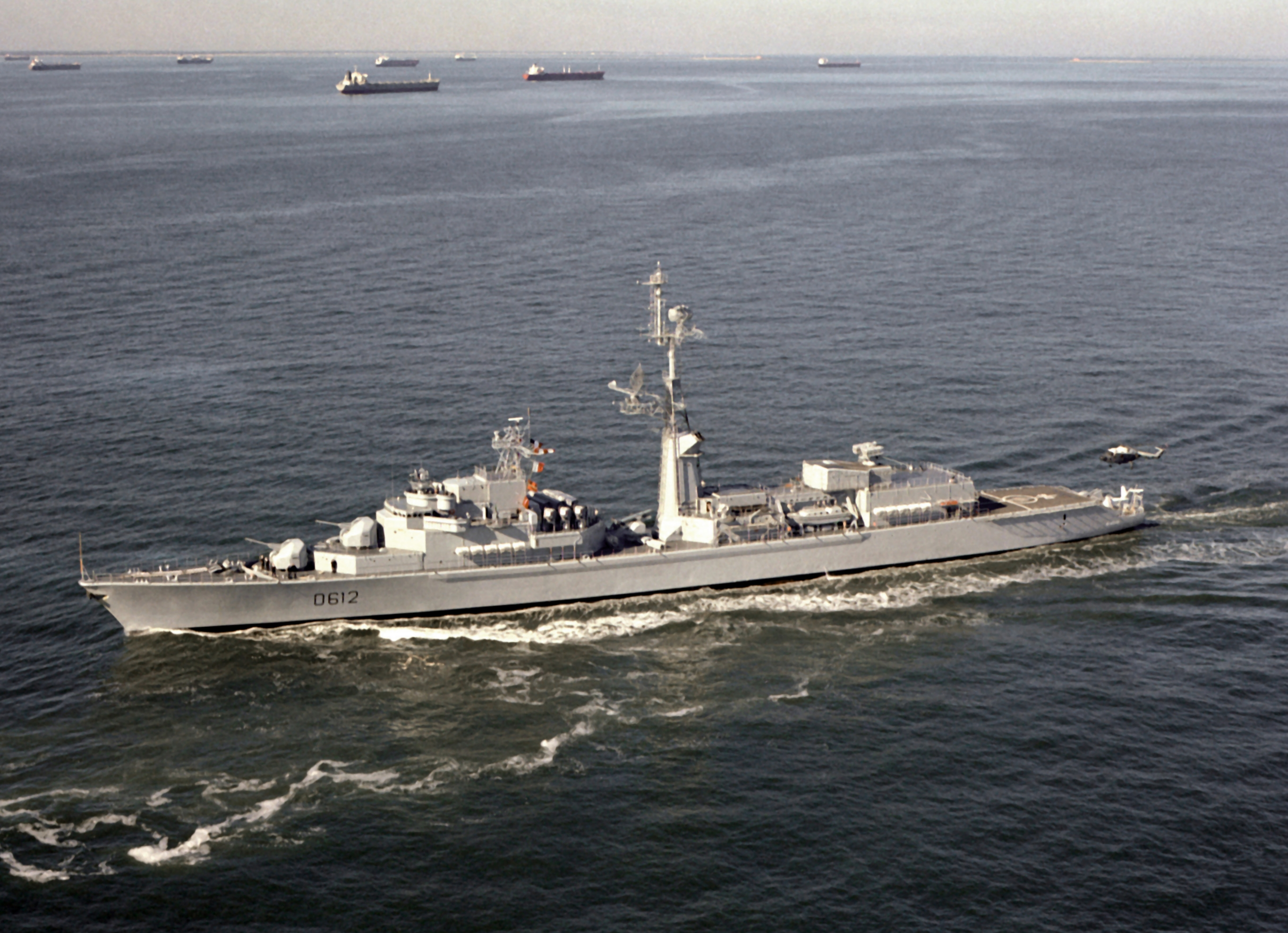 The French destroyer De Grasse (D612) underway in Chesapeake Bay with other ships in the background. The ship was on the way to Norfolk Naval Base (USA) after participation in the joint U.S./French bicentennial celebration at Yorktown, Virginia (USA).